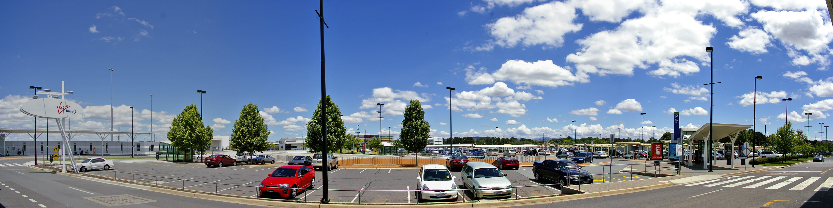 Canberra Airport carpark. Canberra, ACT, Australia